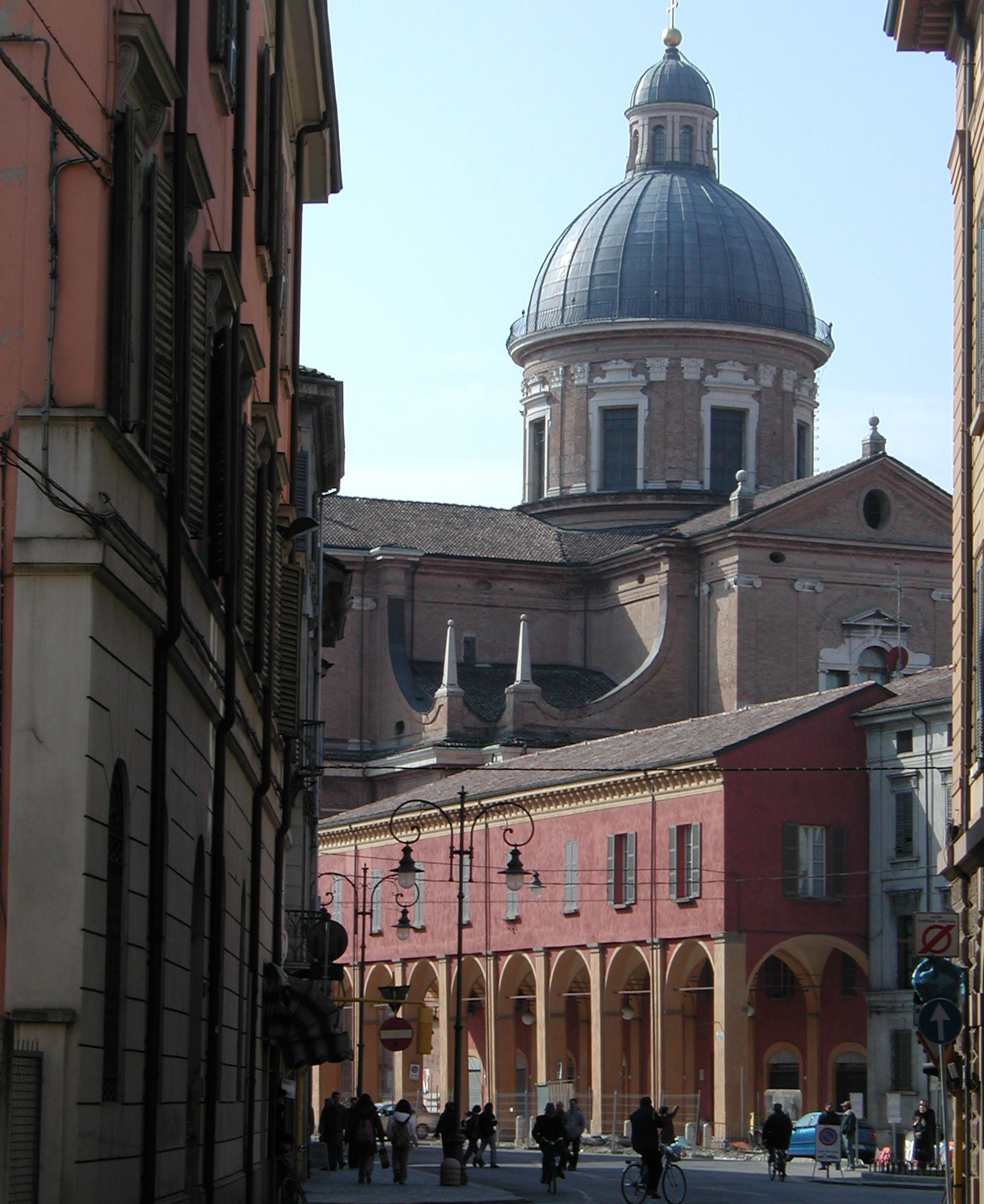 Cupola of the basilic of "Ghiara", Emilia region, Italy.